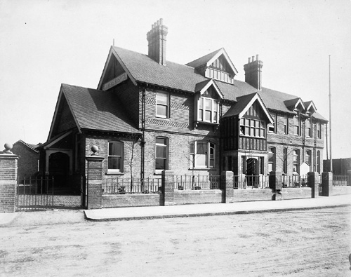 Reproduction ID: H0027 Maker: Unknown Date: Early 20th century